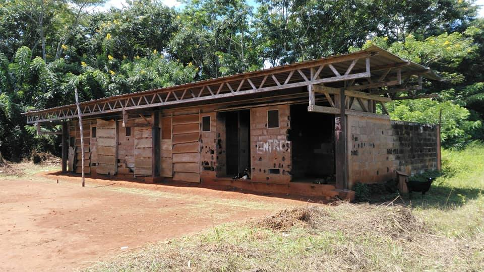 Primary school in Ngoulmakong, East Region, Cameroon